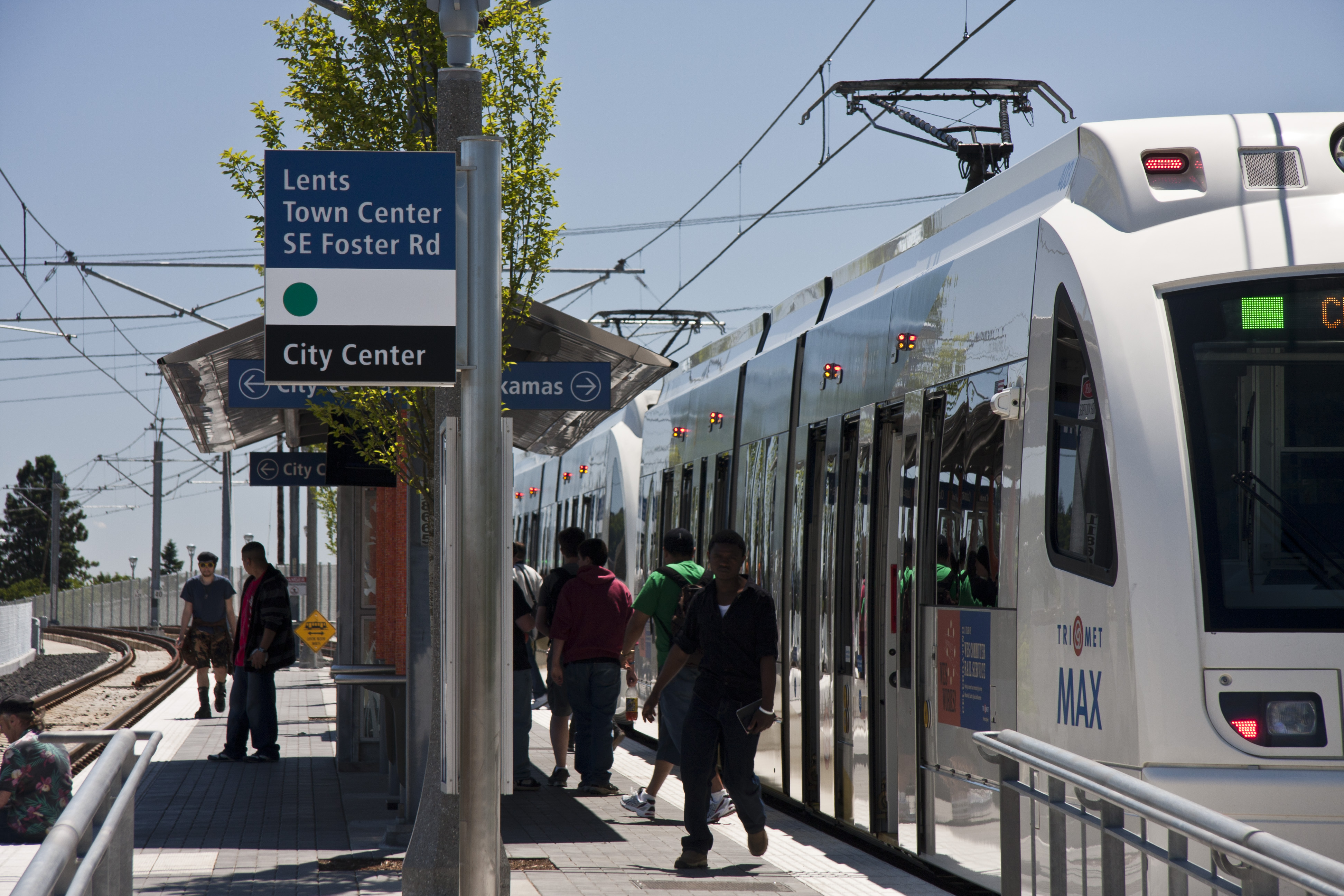 Passengers disembark from the light rail at the Lents Town Center station